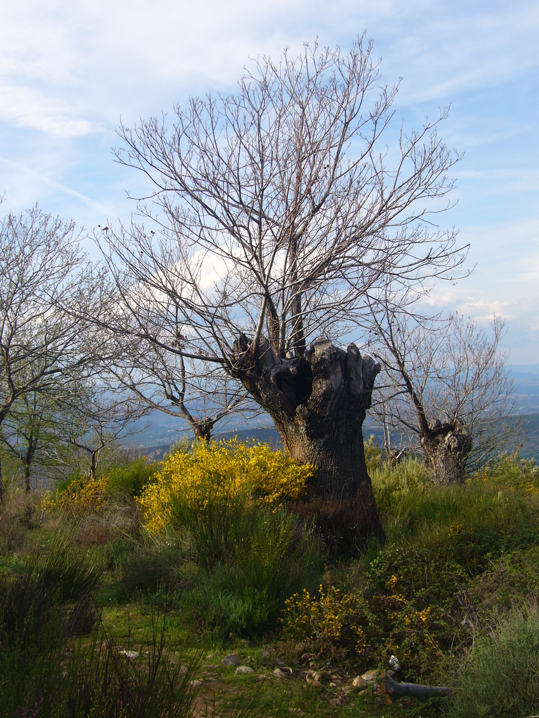 Castanea sativa (Sweet Chestnut) in Las Médulas, León, Castilla y León, Spain.